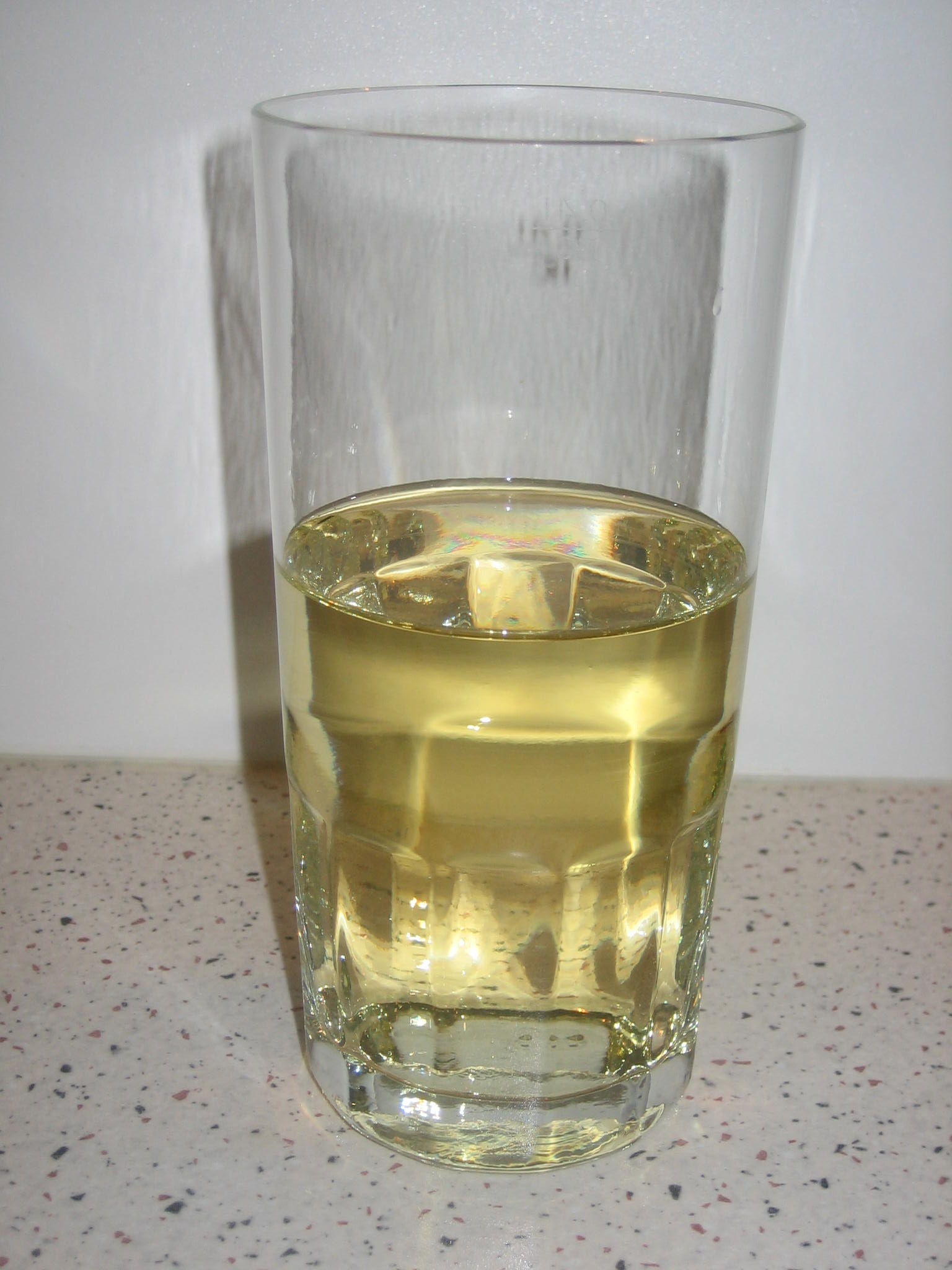 Traditional wine glas of Mainz, called “Mainzer Stange”; mouth-blown